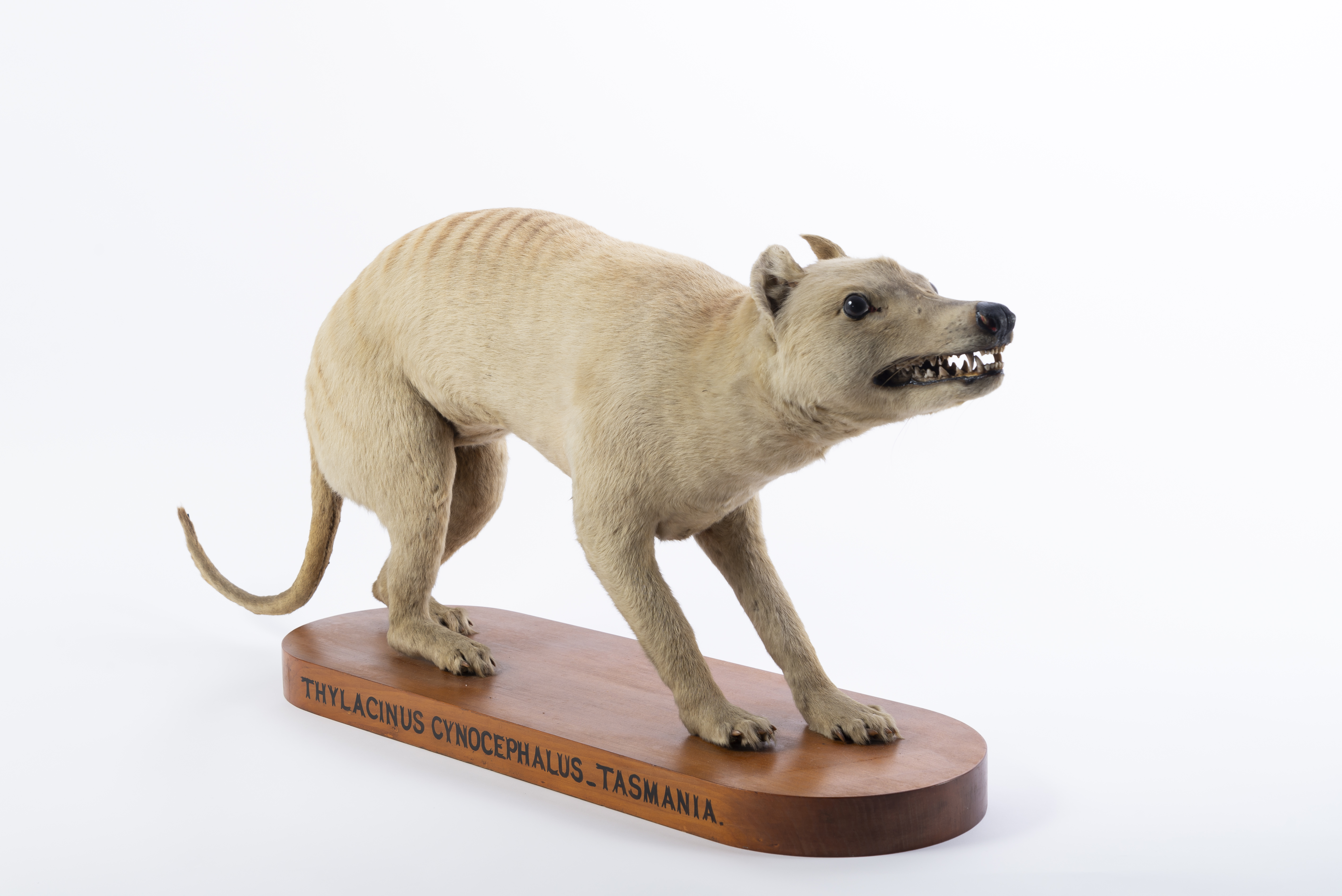 Mounted thylacine in the collection of the Otago MuseumThylacinus cynocephalus